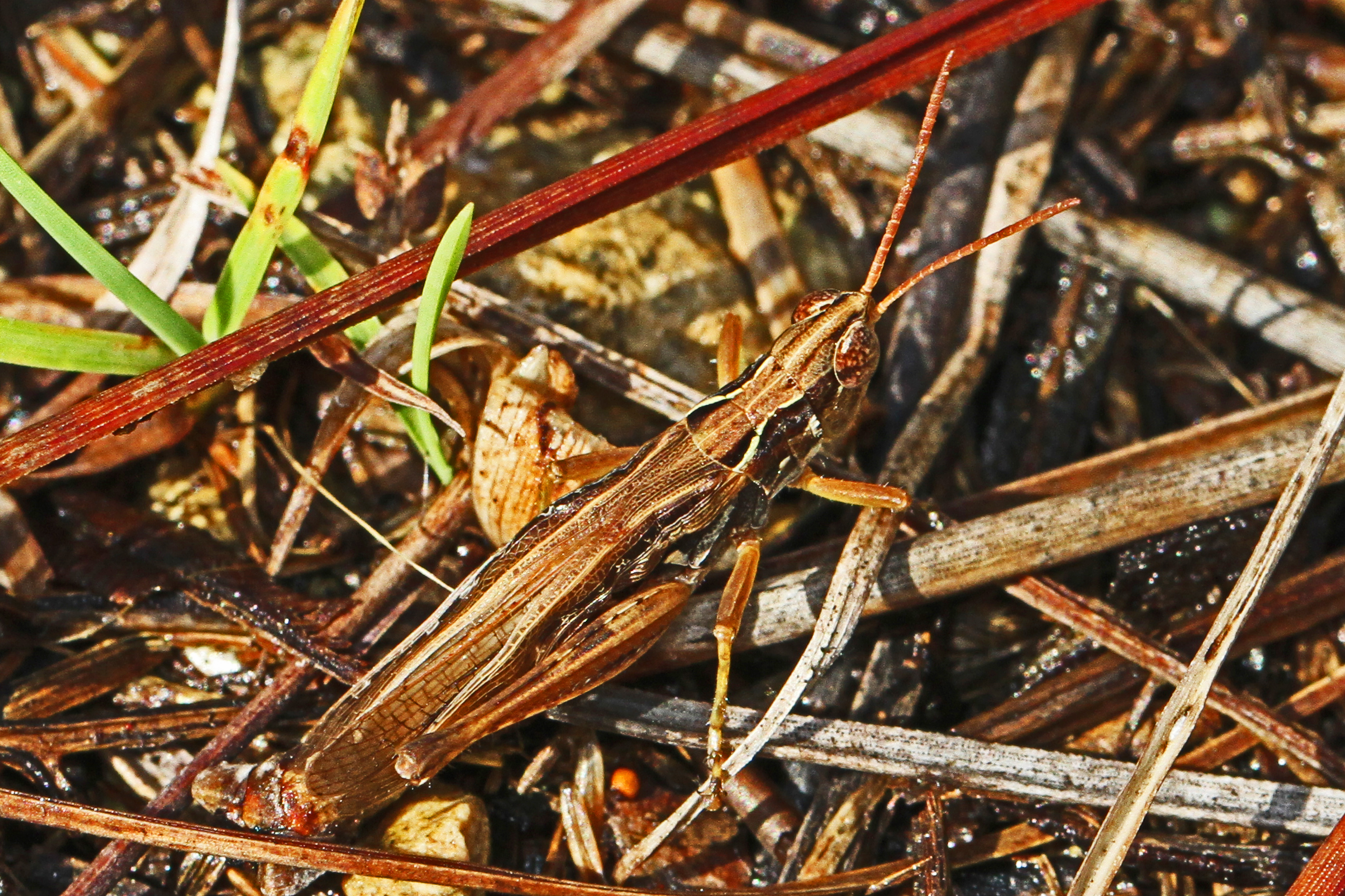 Spotted-winged Grasshopper - Orphulella pelidna, Long Pine Key, Everglades National Park, Homestead, Florida. He blends in well with his surroundings.